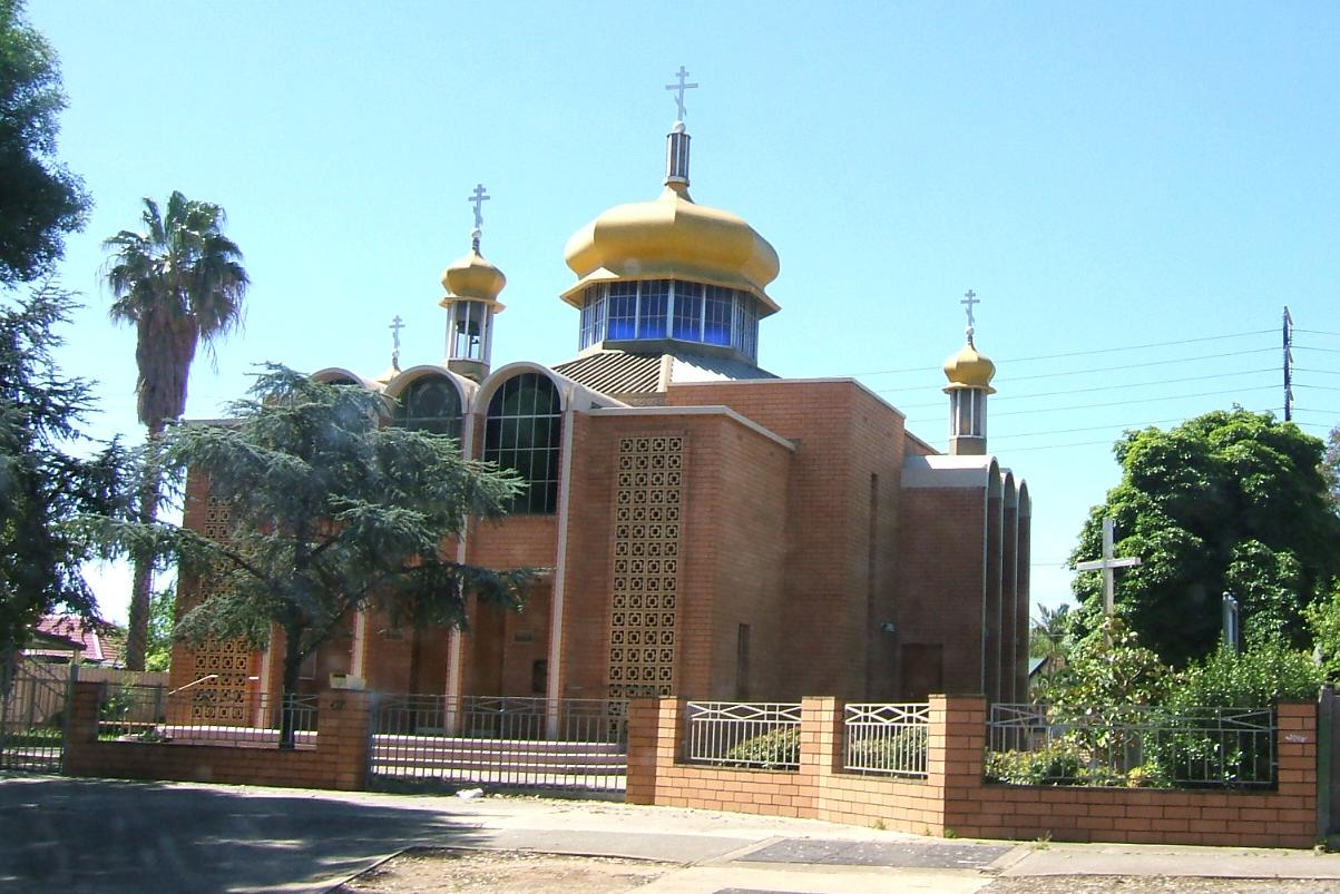 Ukrainian Orthodox Church at 427 Port Rd, Croydon, South Australia